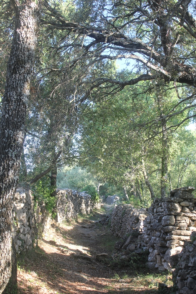 Antiguo camino rural Lecina - Betorz